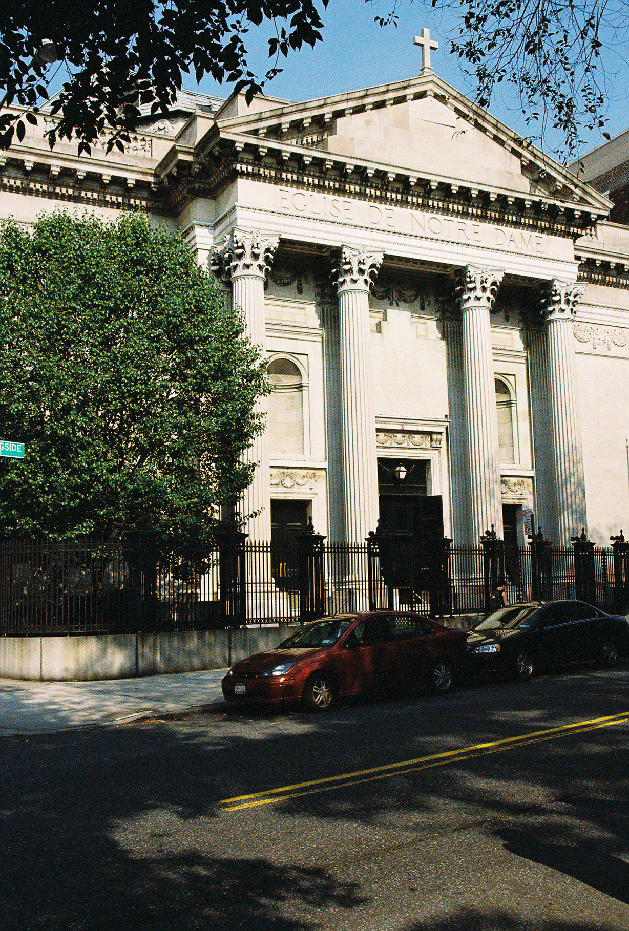 The front façade of the Church of Notre Dame along 40 Morningside Drive in the Morningside Heights section of Manhattan, New York City.